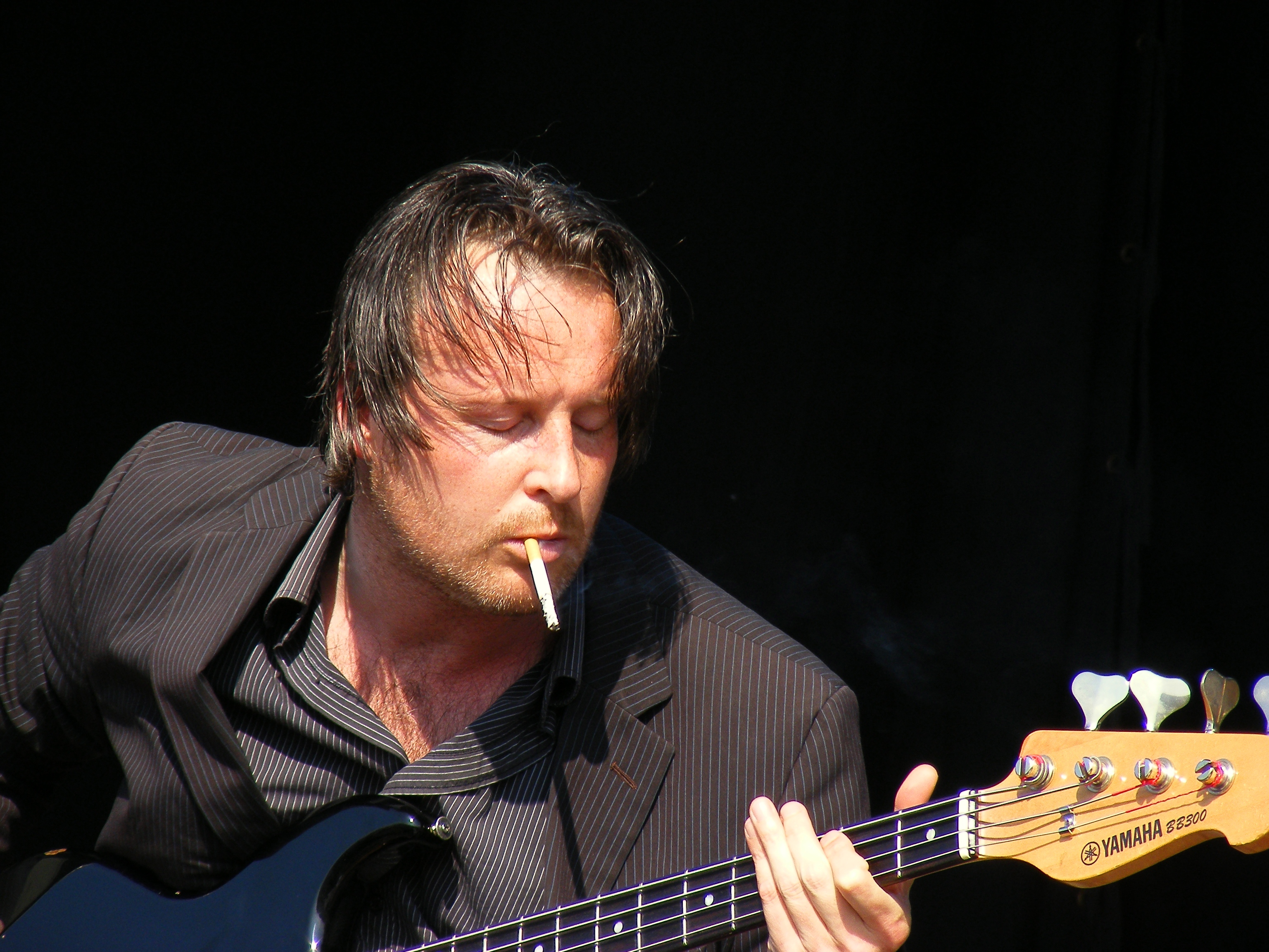 I Am Kloot's Peter Jobson performing with the band at Chester Rocks on the 3rd of July 2011.